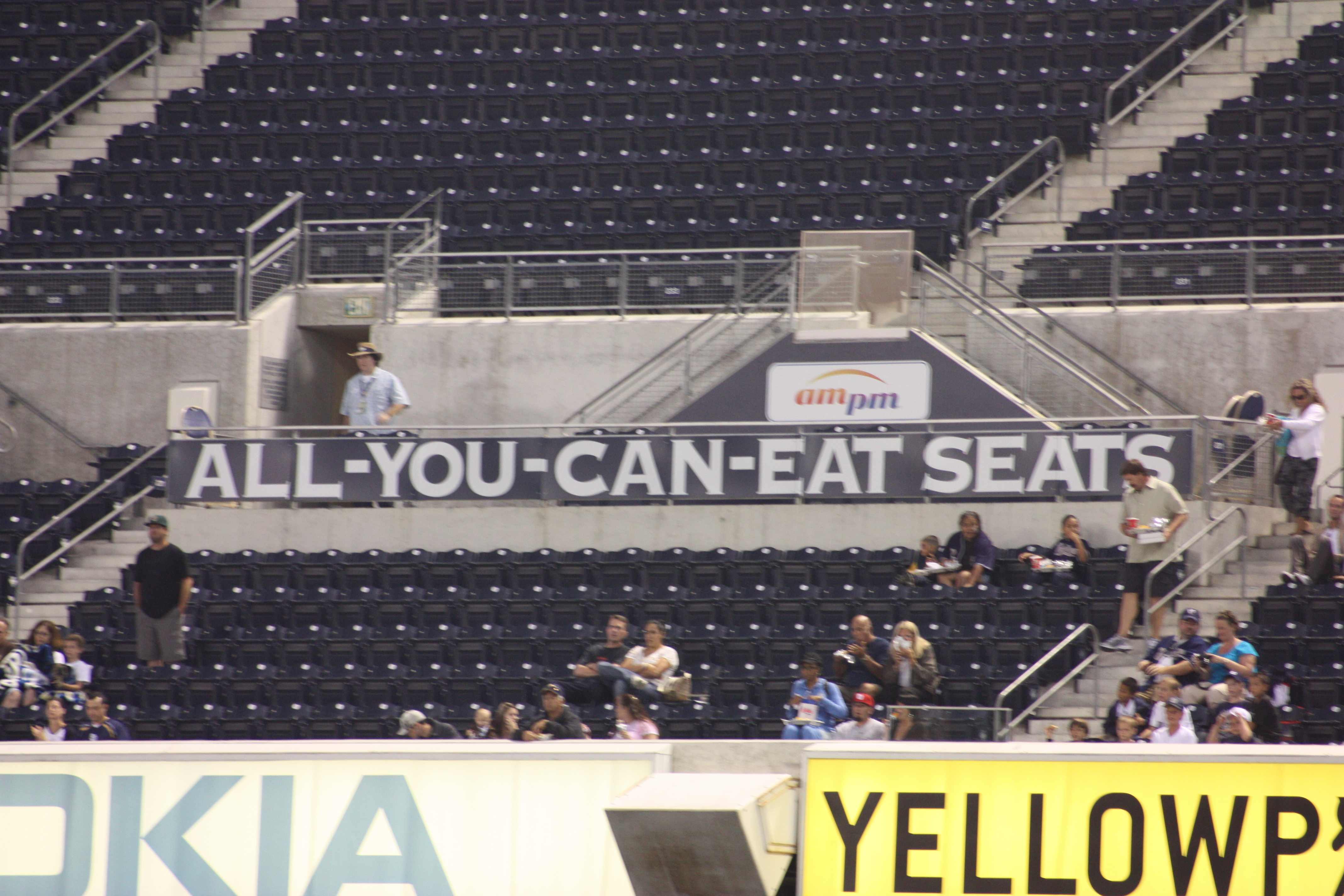 All-you-can-eat-seats at Petco Park, San Diego, California, in 2009.